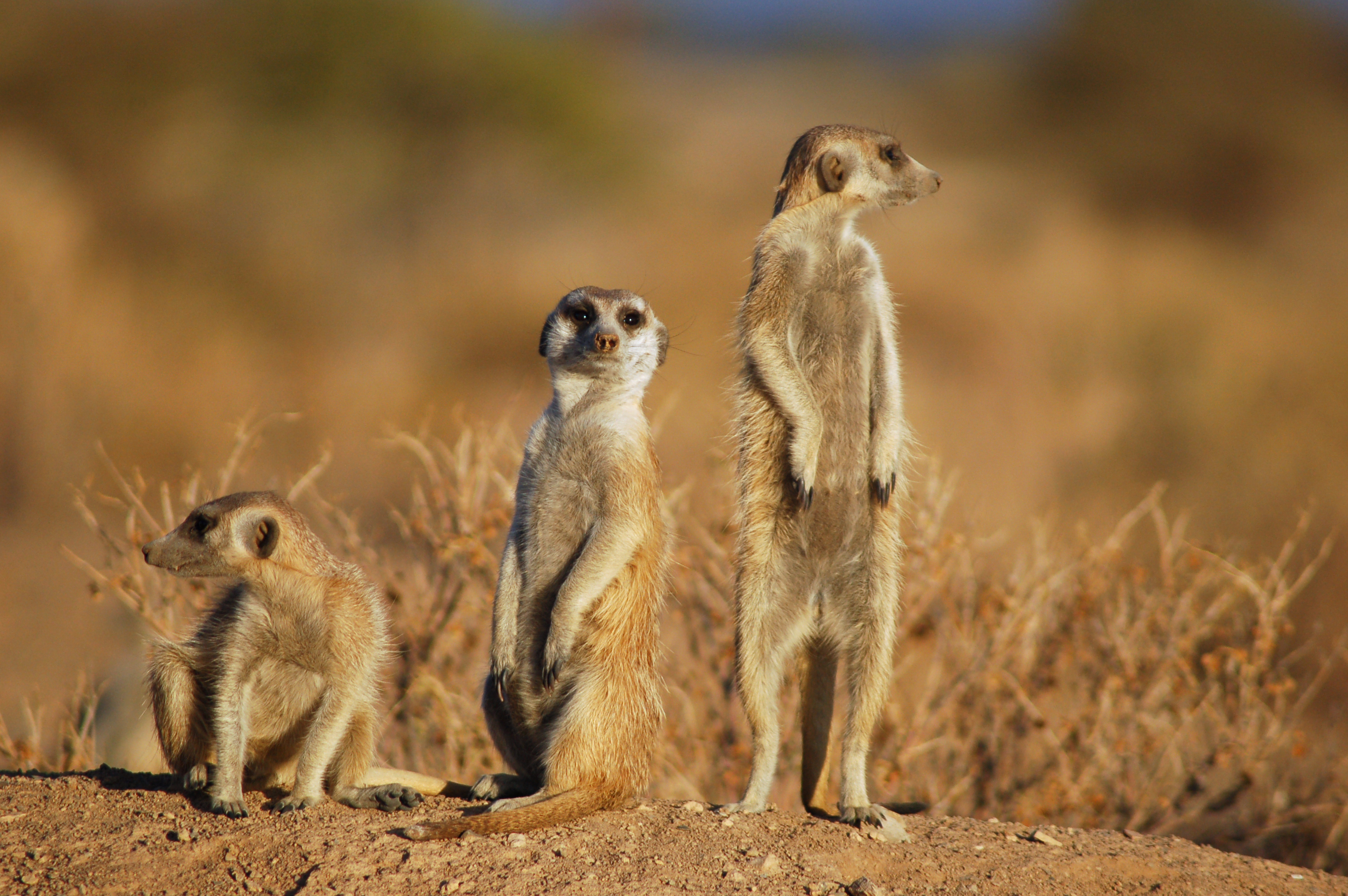 Suricates (Suricata suricatta) in Namibia